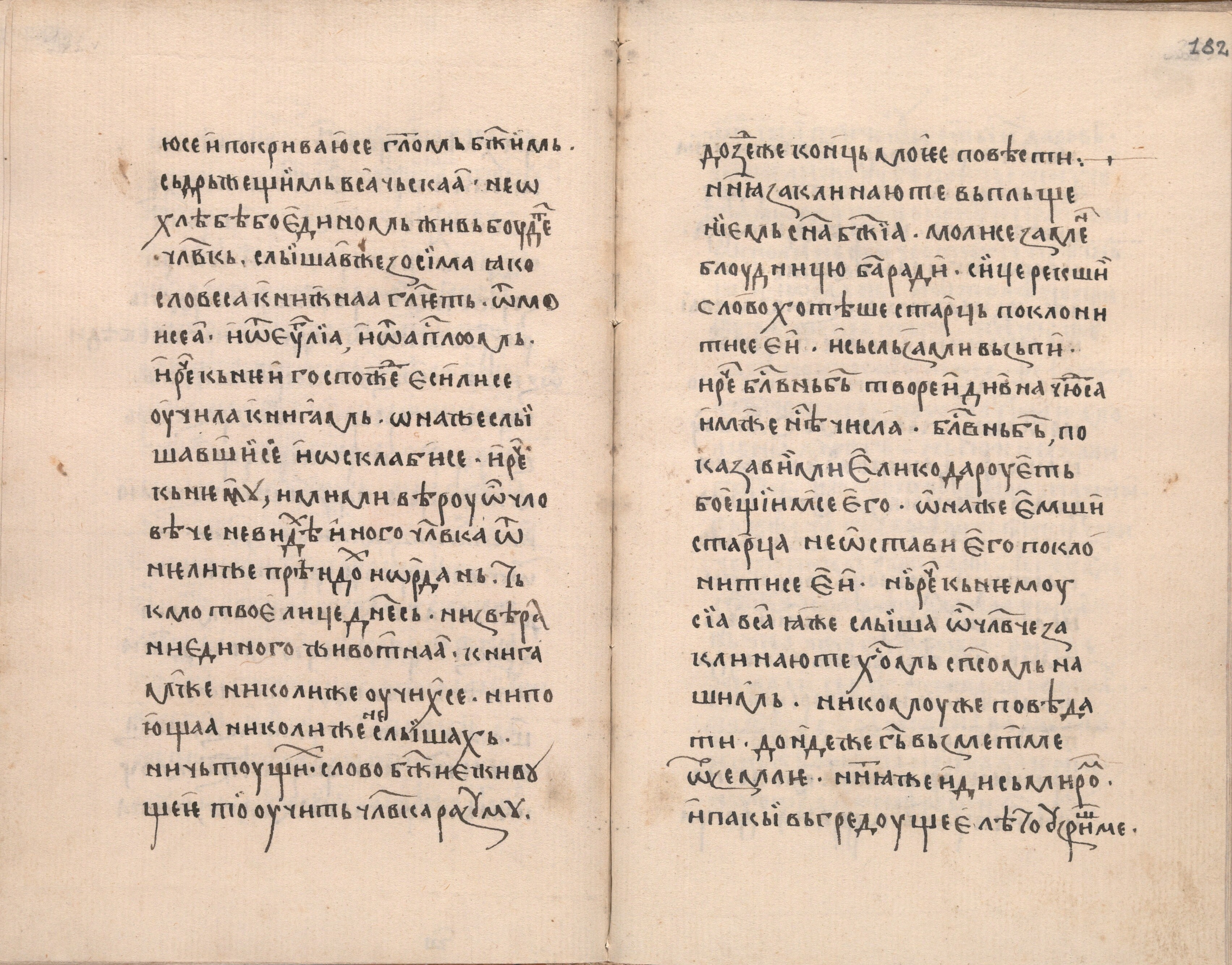 Excerpt from the manuscript "Bdinski Zbornik". Written in Old Slavonic, 1360. Preserved in the Ghent University Library.